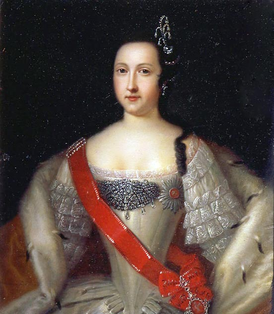 Mother of Emperor Ivan VI (1740-1764)